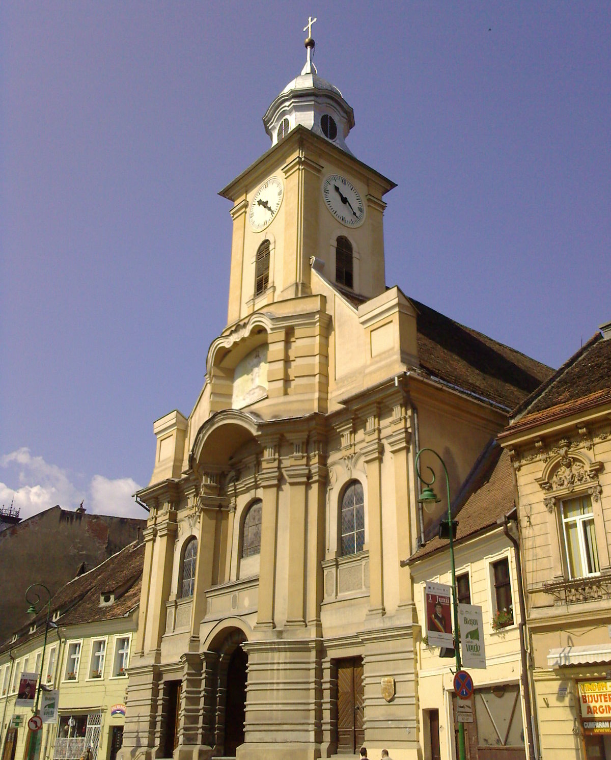 Romania, Brasov, Roman Catholic Church "Sf. Petru şi Pavel"